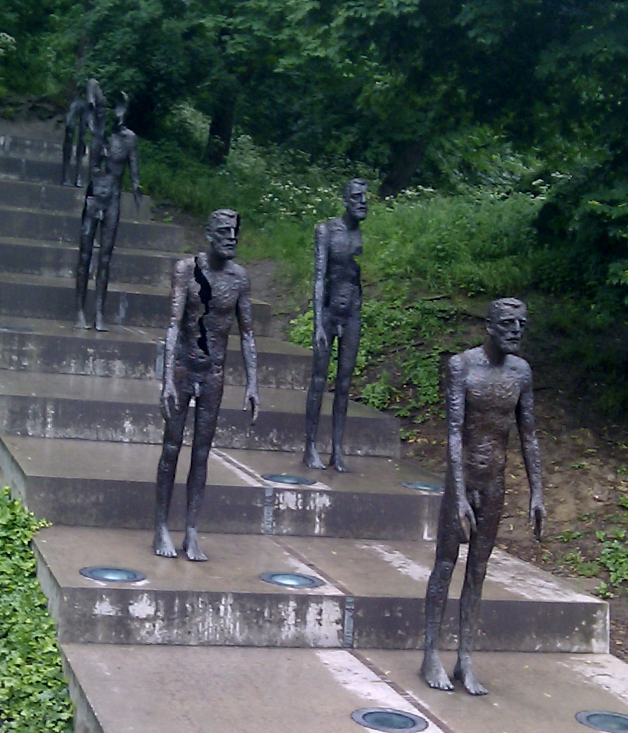 The memorial to the victims of Communism in thye Czech Republic, Prague